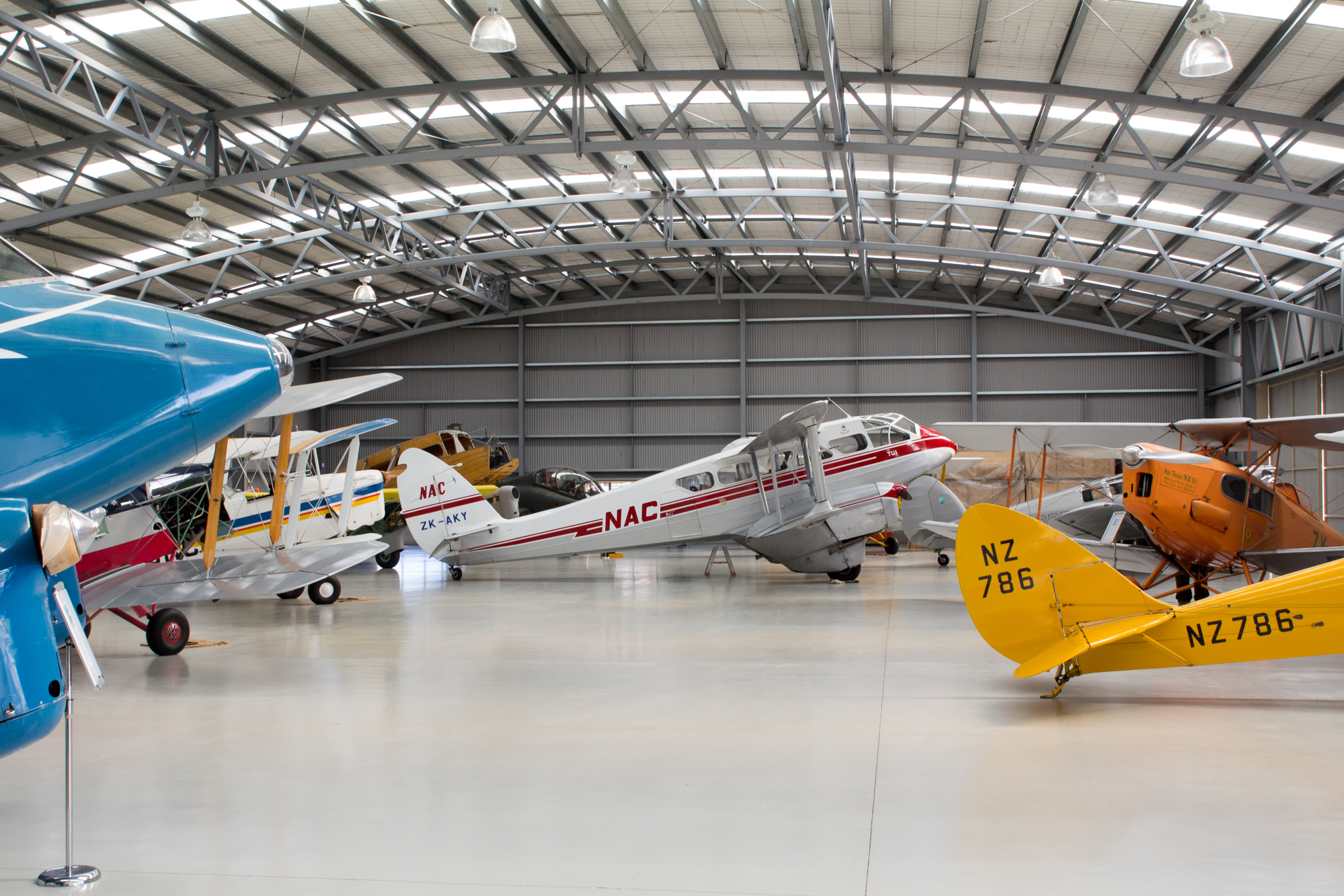 Croydon Aircraft Company's hangar at Old Mandeville Airfield, Mandeville, New Zealand. de Havilland DH. 89 Dragon Rapide ZK-AKY at the center.